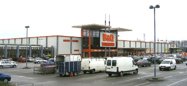 B&Q DIY heaven on the outskirts of York.